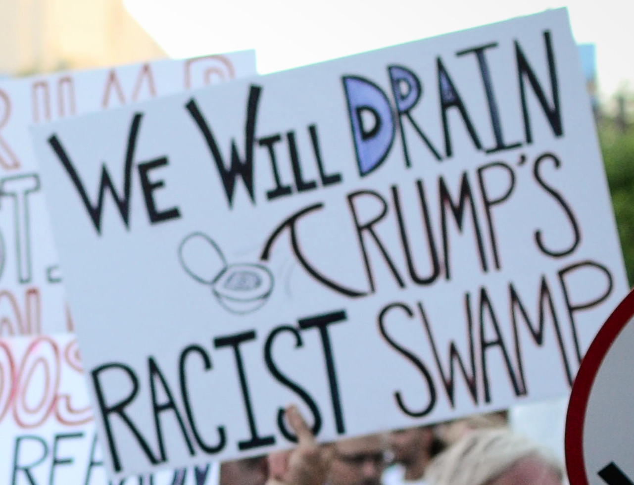 In the heart of the protest at 3rd Street and Monroe in downtown Phoenix.